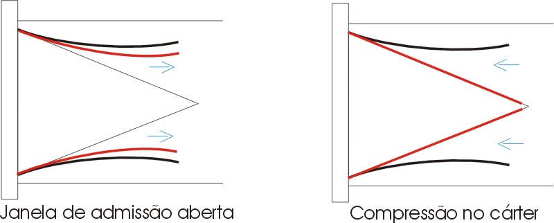 Torque induction Yamaha.